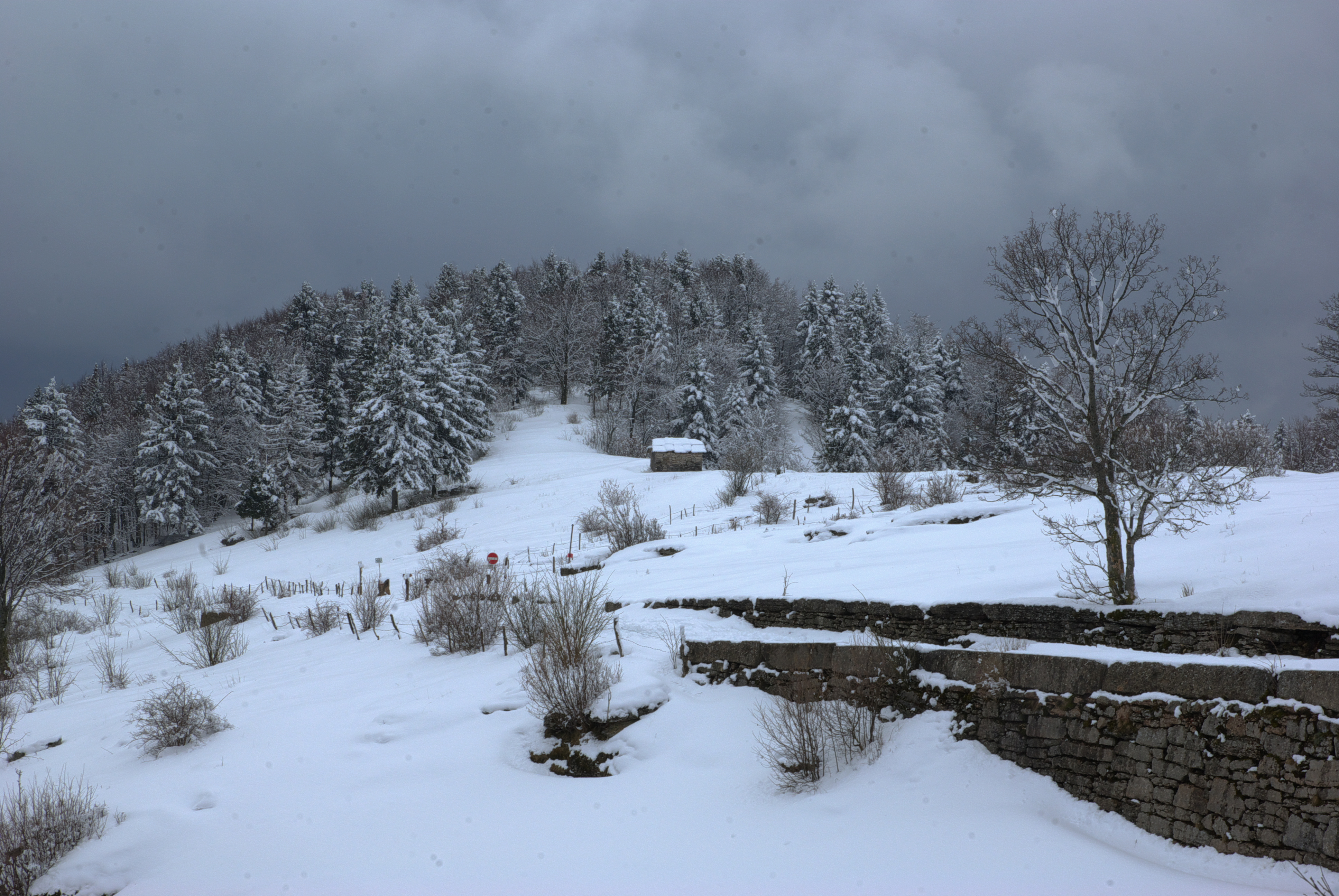 Bosco Chiesanuova (Grietz Dossetti Tinazzo) Lessinia VR Italy 2013-04-01 photo CTG ACA LESSINIA Paolo Villa